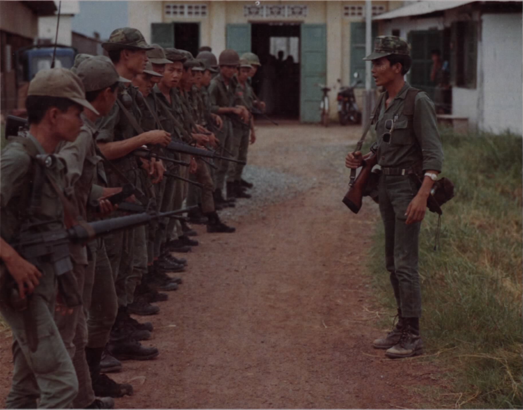 Sergeant Vo Van Bo, Squad Leader of one of the squads of the Regional Force/Regular Force Company, inspects his squad at the Tan Qui Dong outpost, located in Gia Dinh Province, approximately 5 km south of Saigon, prior to moving out on a patrol.